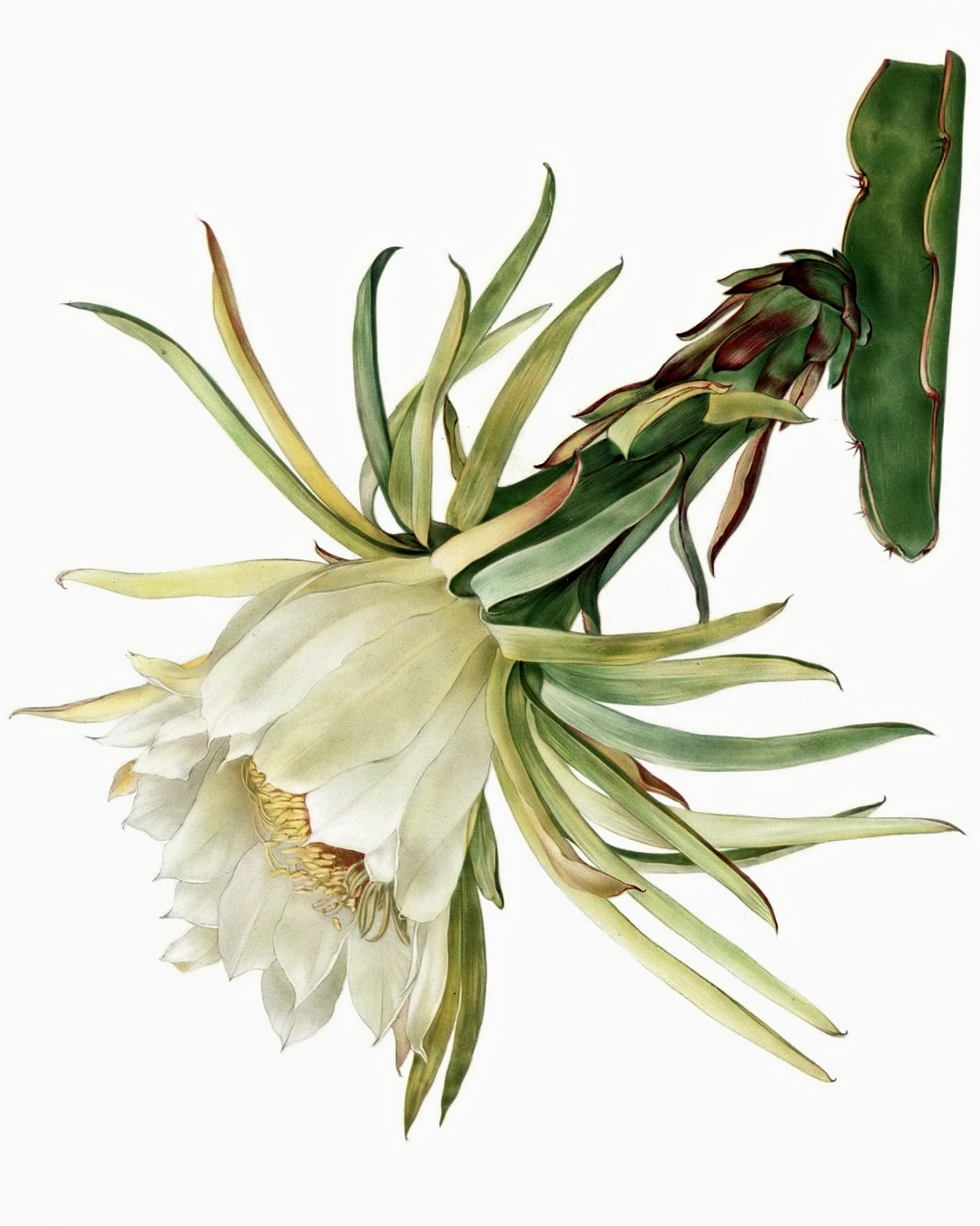 Flower near end of branch of Hylocereus undatus. X 0.7. (rotated to correct orientation)